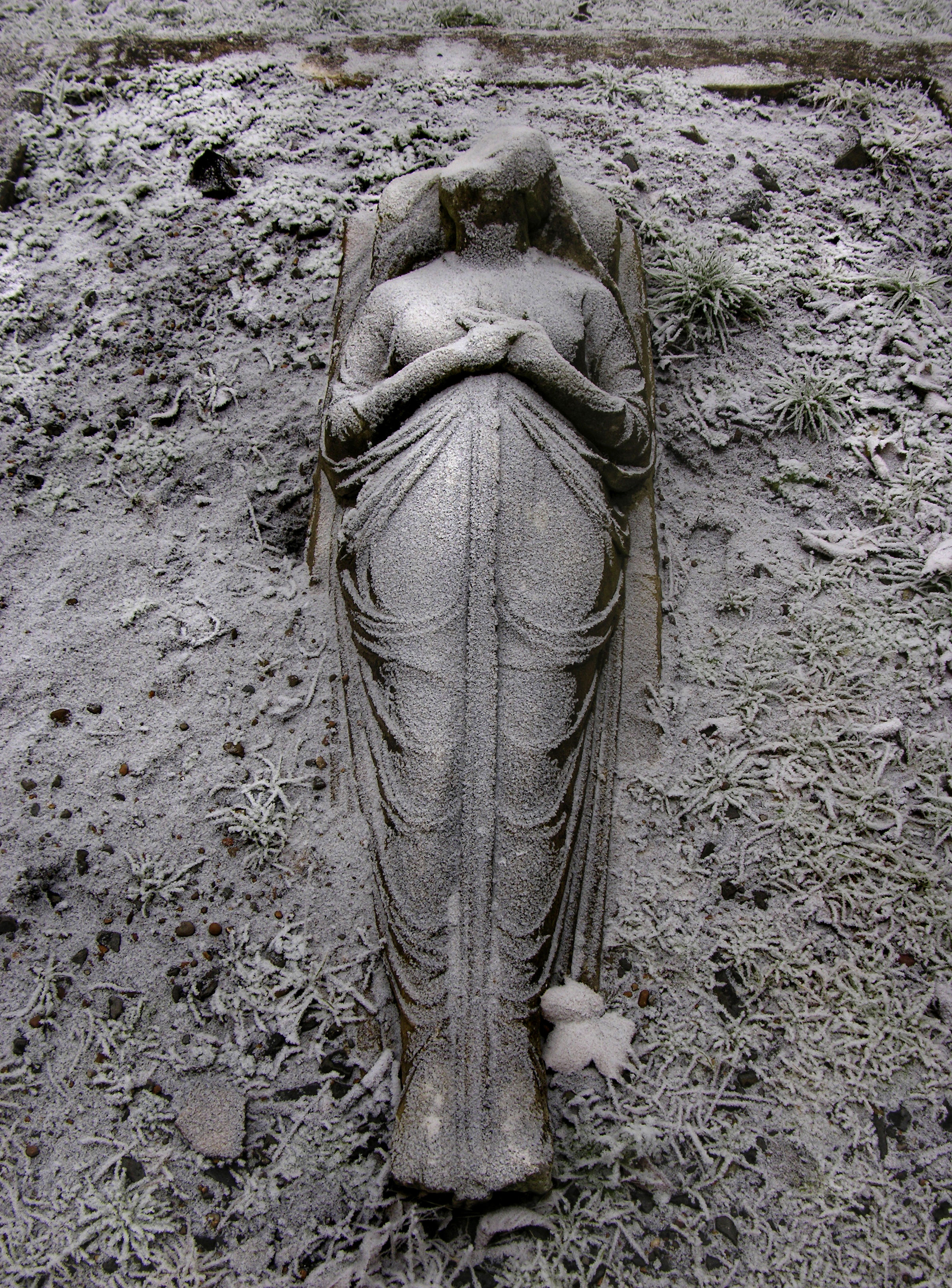 Edinburgh, Warriston Road, Warriston Cemetery Wikidata has entry Q17570844 with data related to this item.